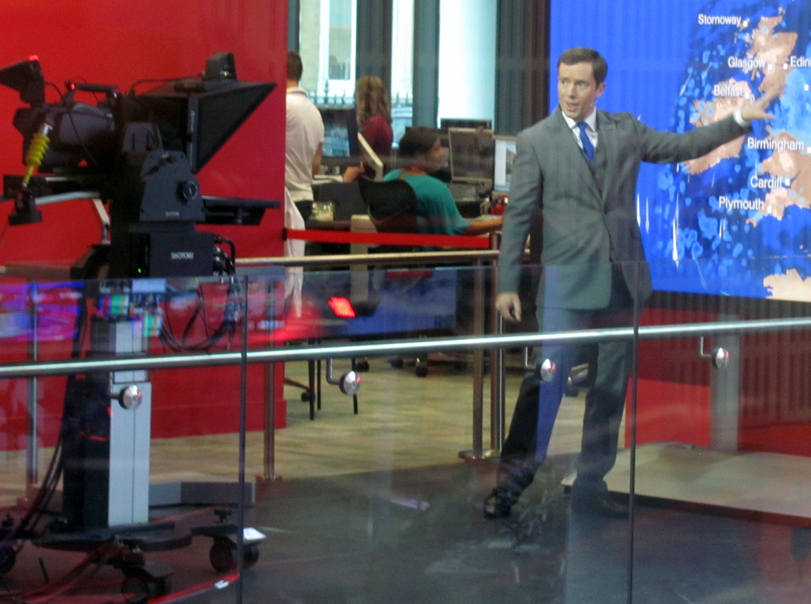 Alex Deakin does a live weather forecast from the upper floor of the newsroom in the BBC Broadcasting House, London.